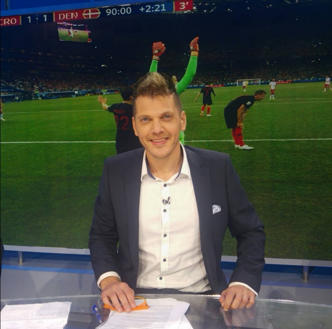 Amit Lewinthal